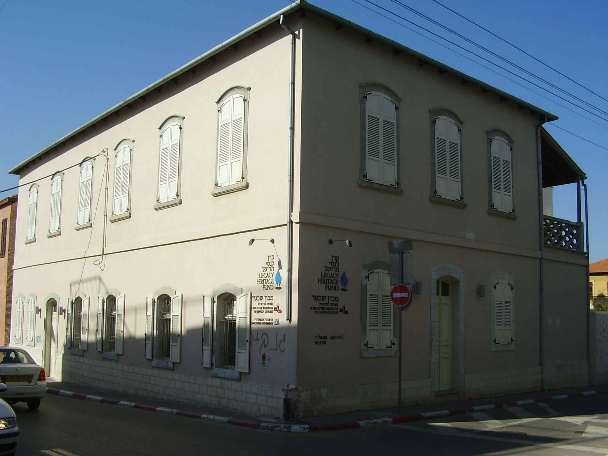 former caffe lorenz in tel aviv